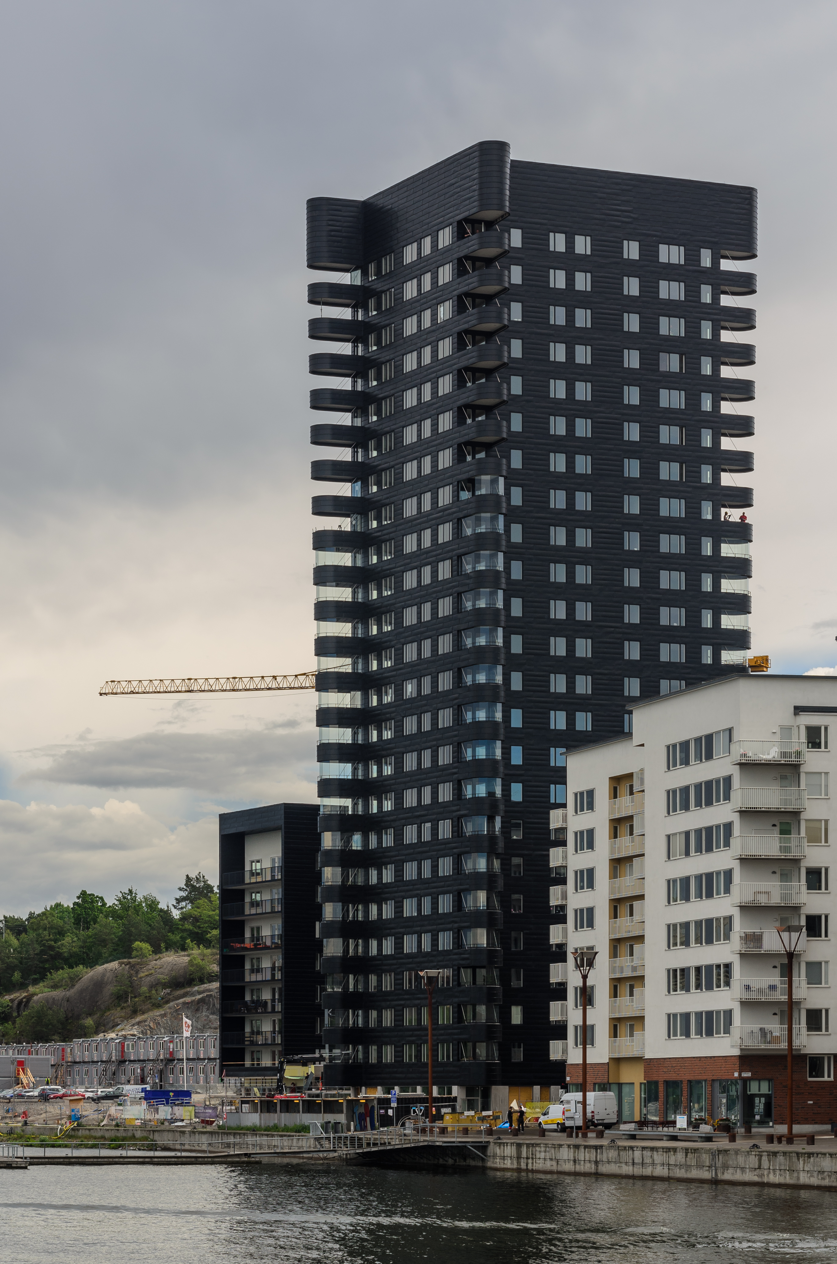 Kajen 4 under construction in June 2014. Architect: Gert Wingårdh.